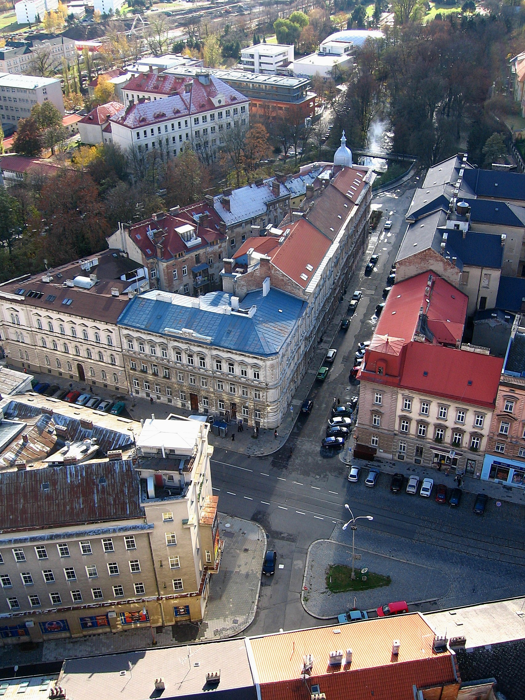 Neorenaissance architecture in Olomouc, the Czech Republic